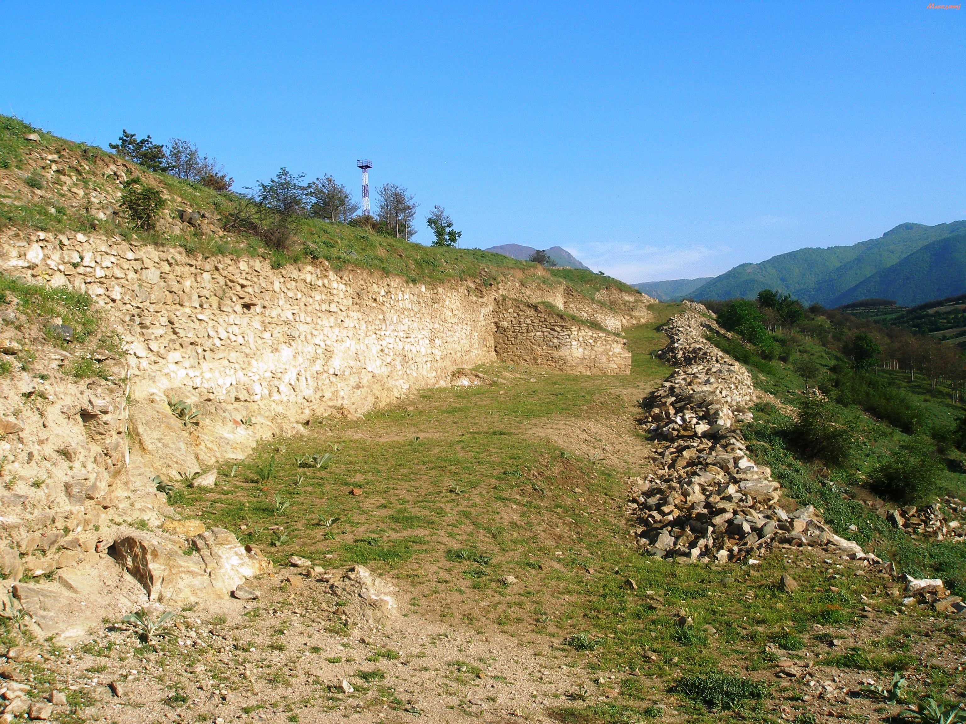 Vinica Fortress, Macedonia